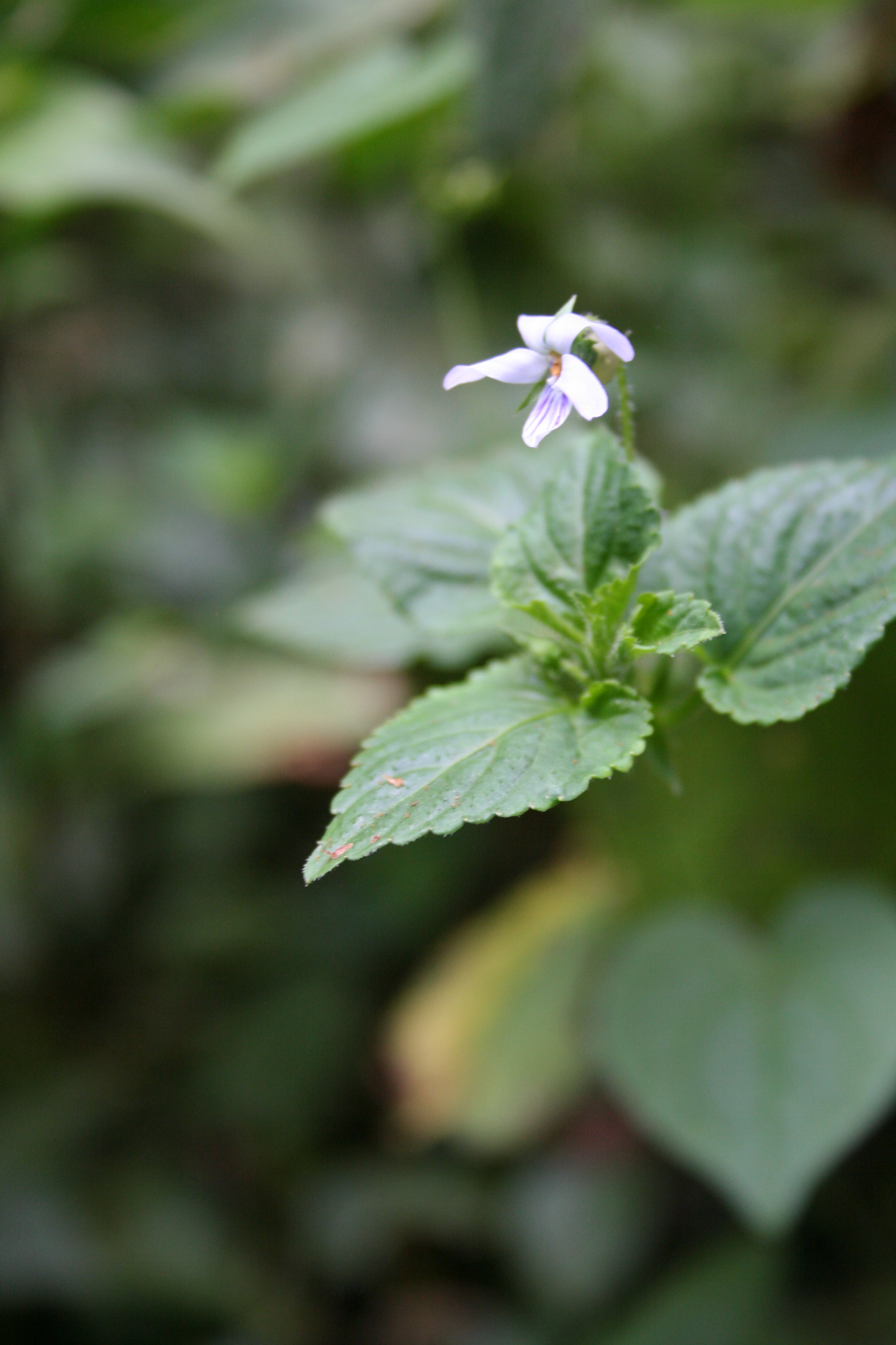 Viola abyssinica, from the slopes of Mt Cameroon